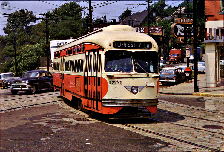 Scan of a photo that I made myself in Pittsburgh in 1968. PCC car 1791 on line 10 West View.